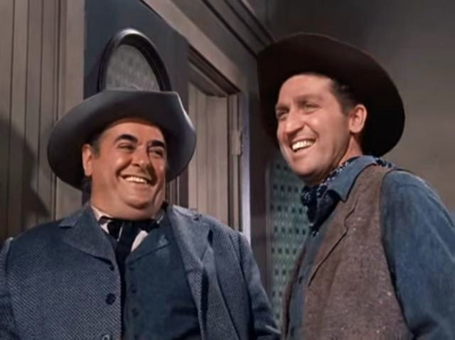 Robert Middleton & Peter Leeds in the TV-series Bonanza, episode Death at Dawn - cropped screenshot